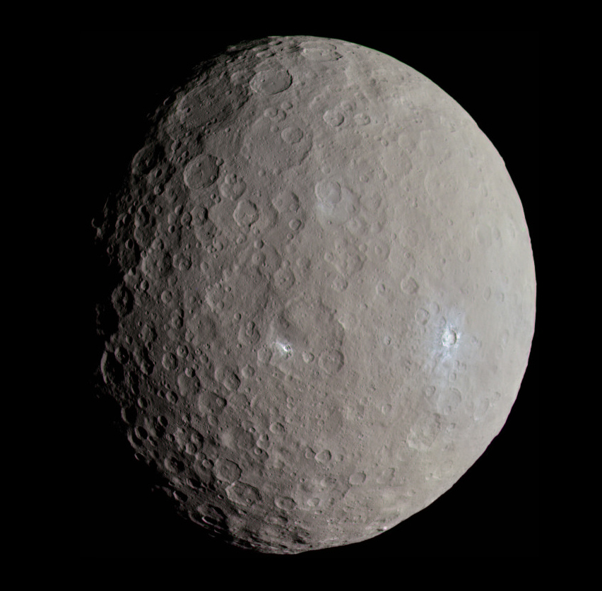 Approximate true-color image of Ceres, using the F7 ('red'), F2 ('green') and F8 ('blue') filters, projected onto a clear filter image. Images were acquired by Dawn at 04:13 UT May 4, 2015, at a distance of 13641 km. At the time, Dawn was over Ceres' northern hemisphere. The prominent, bright crater at right is Haulani. The smaller bright spot to its left is exposed on the floor of Oxo. Ejecta from these impacts appears to have exposed high albedo material similar to deposits found on the floor of Occator Crater. Image Credit: NASA / JPL-Caltech / UCLA / MPS / DLR / IDA / Justin Cowart